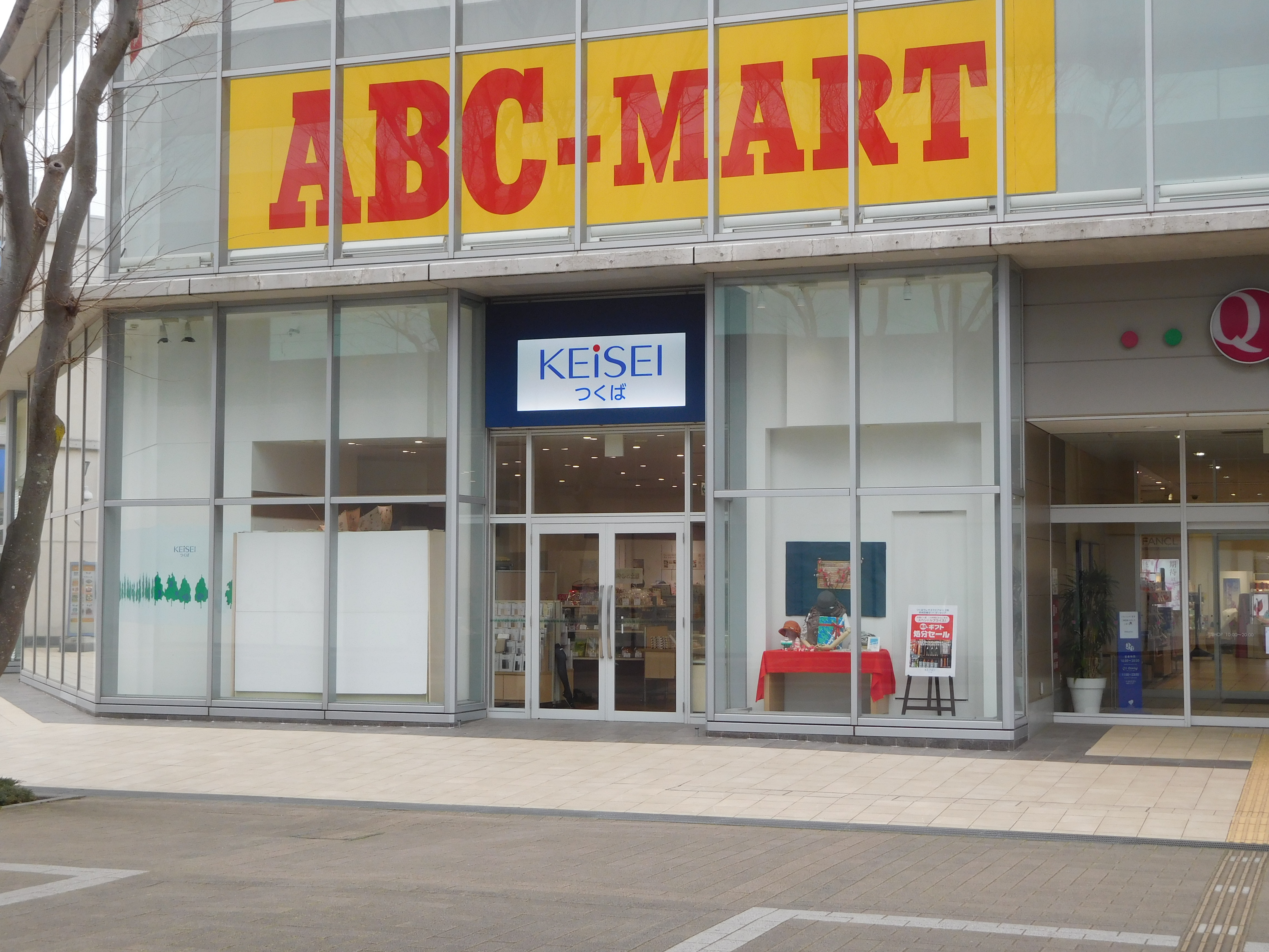 This is Keisei Department Store Tsukuba Shop in Tsukuba, Ibaraki, Japan. It is located in Tsukuba CREO Square.